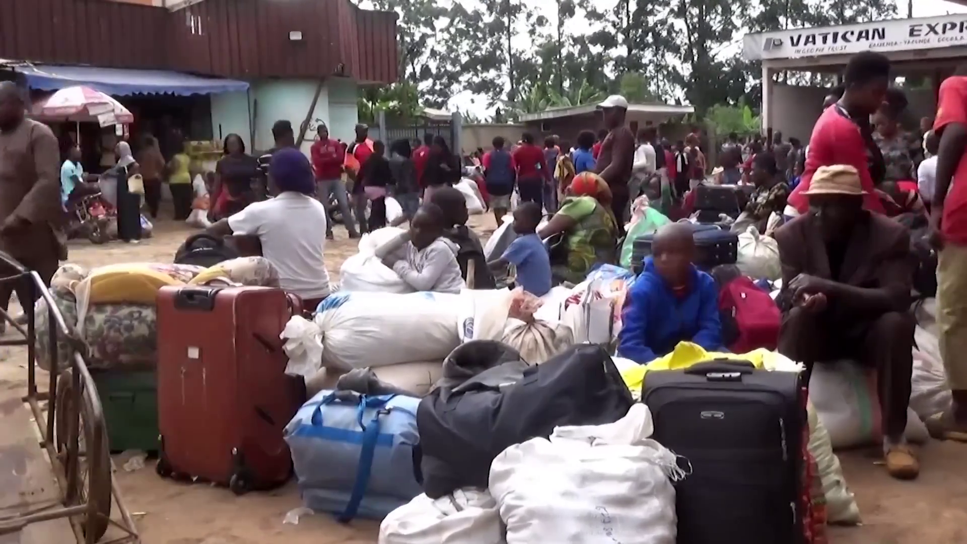 Anglophone Cameroonian fleeing the violence of Ambazonia War, in Douala